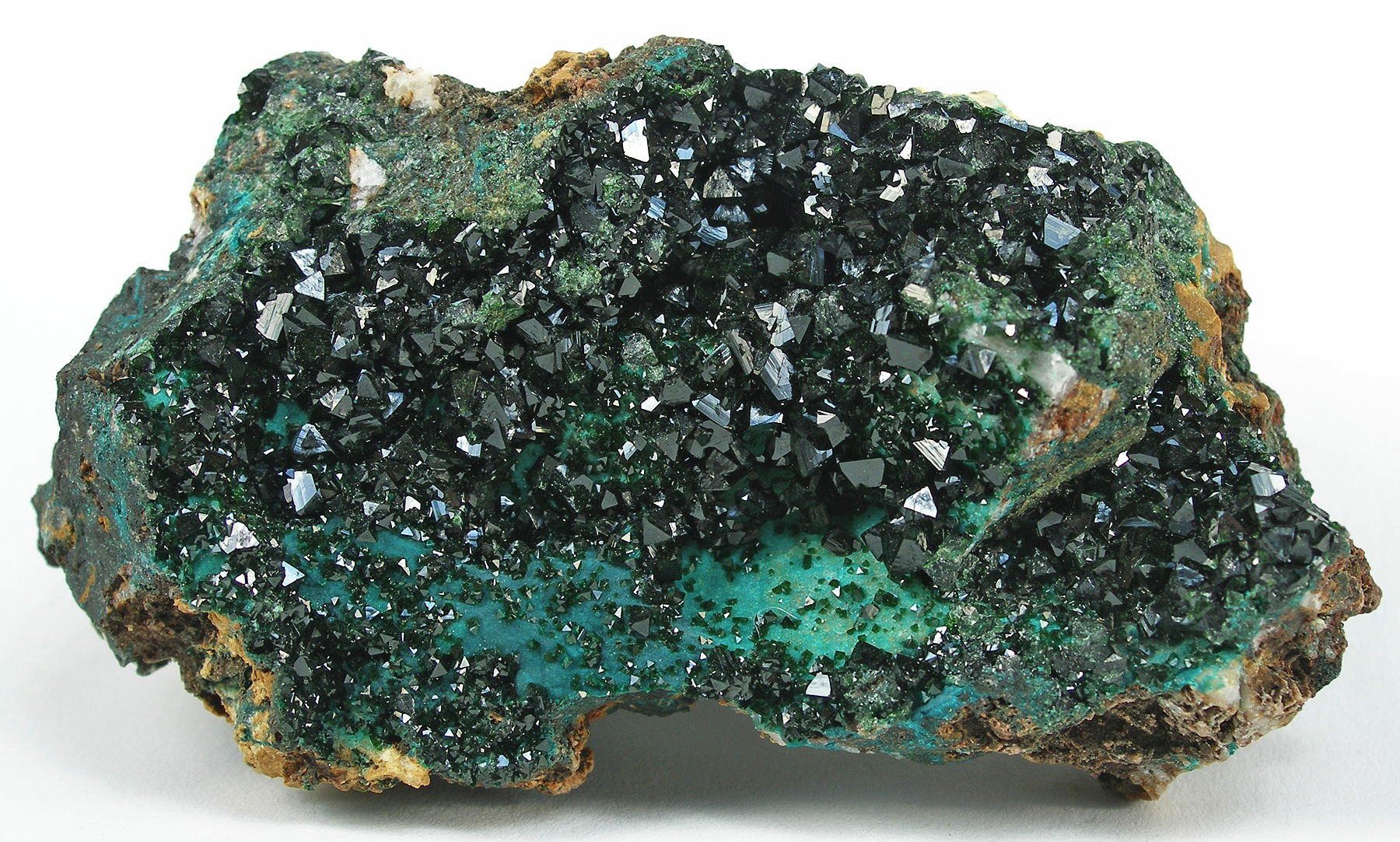 Libethenite Locality: Kambove, Central area, Katanga Copper Crescent, Katanga (Shaba), Democratic Republic of Congo (Zaïre) (Locality at ) Size: small cabinet, 8.0 x 4.6 x 3.3 cm Libethenite SHARP, intensely colorful crystals to about 3 mm cover this matrix plate and make for a very attractive and significant example of the species for this locale. Although you get larger libethenite from other places, the lustre and sharpness of these crystals is, for me, among the top for the species. They look like little green metallic octohedra at first glance. From the John Ydren collection, purchased for $125 in 1972 (a lot of money for those days!). Again, while you can get bigger crystals, this to me has more flash and color appeal than most, and overall is a superb example of the species.